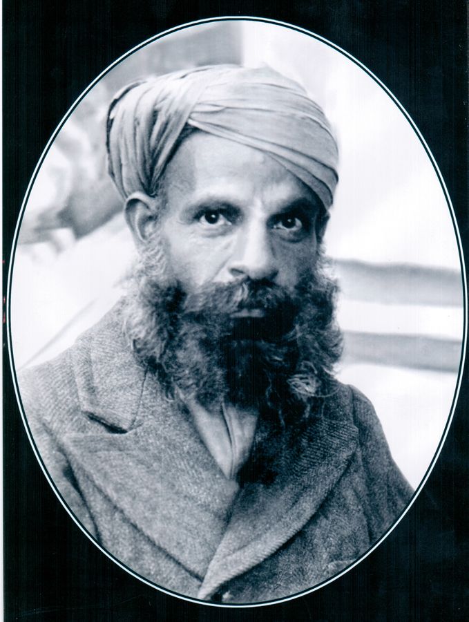 A photograph of Bavji wearing an overcoat (c.1915).